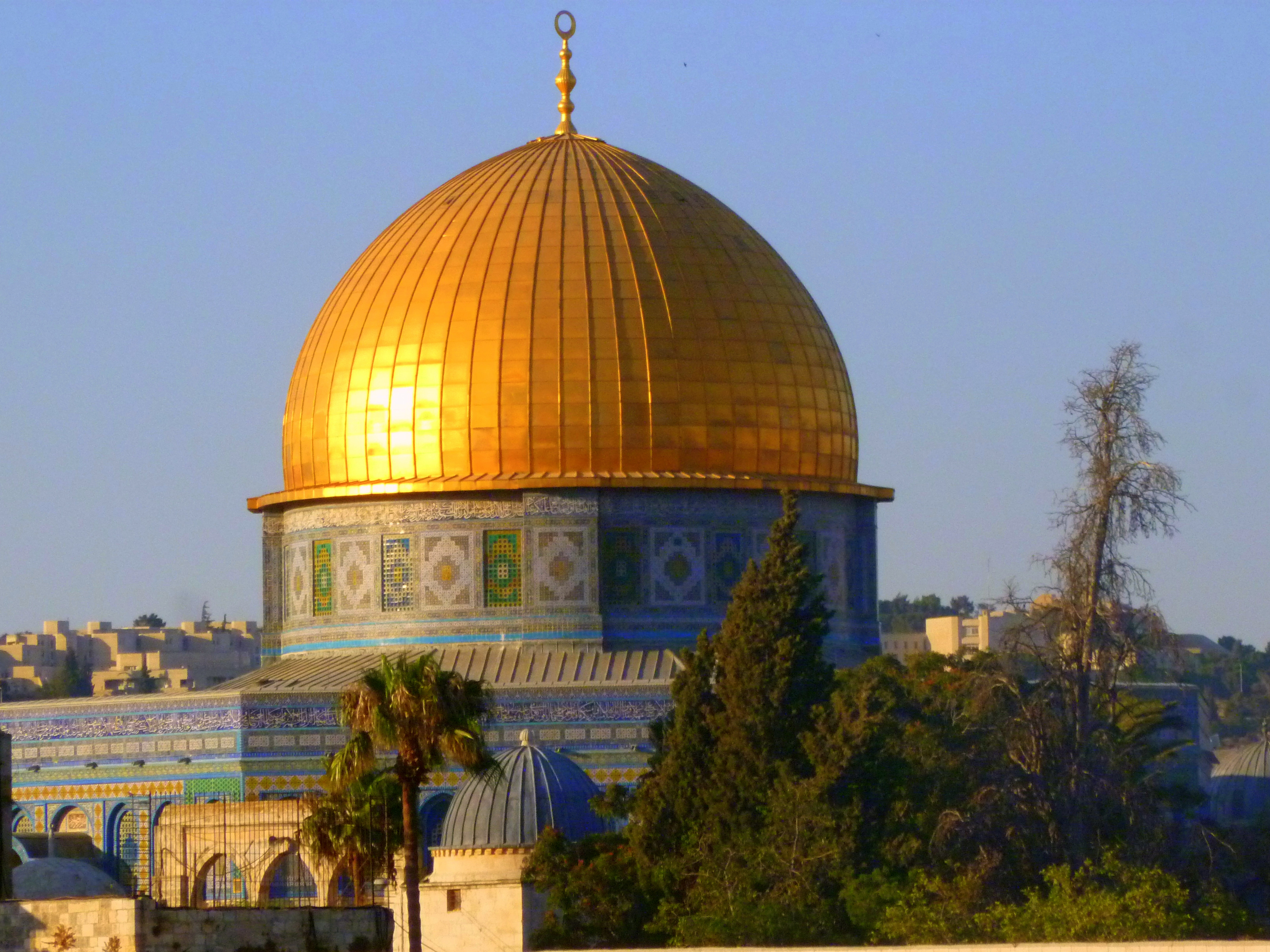 Religion in Palestine